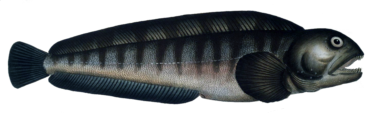 Anarhichas lupus